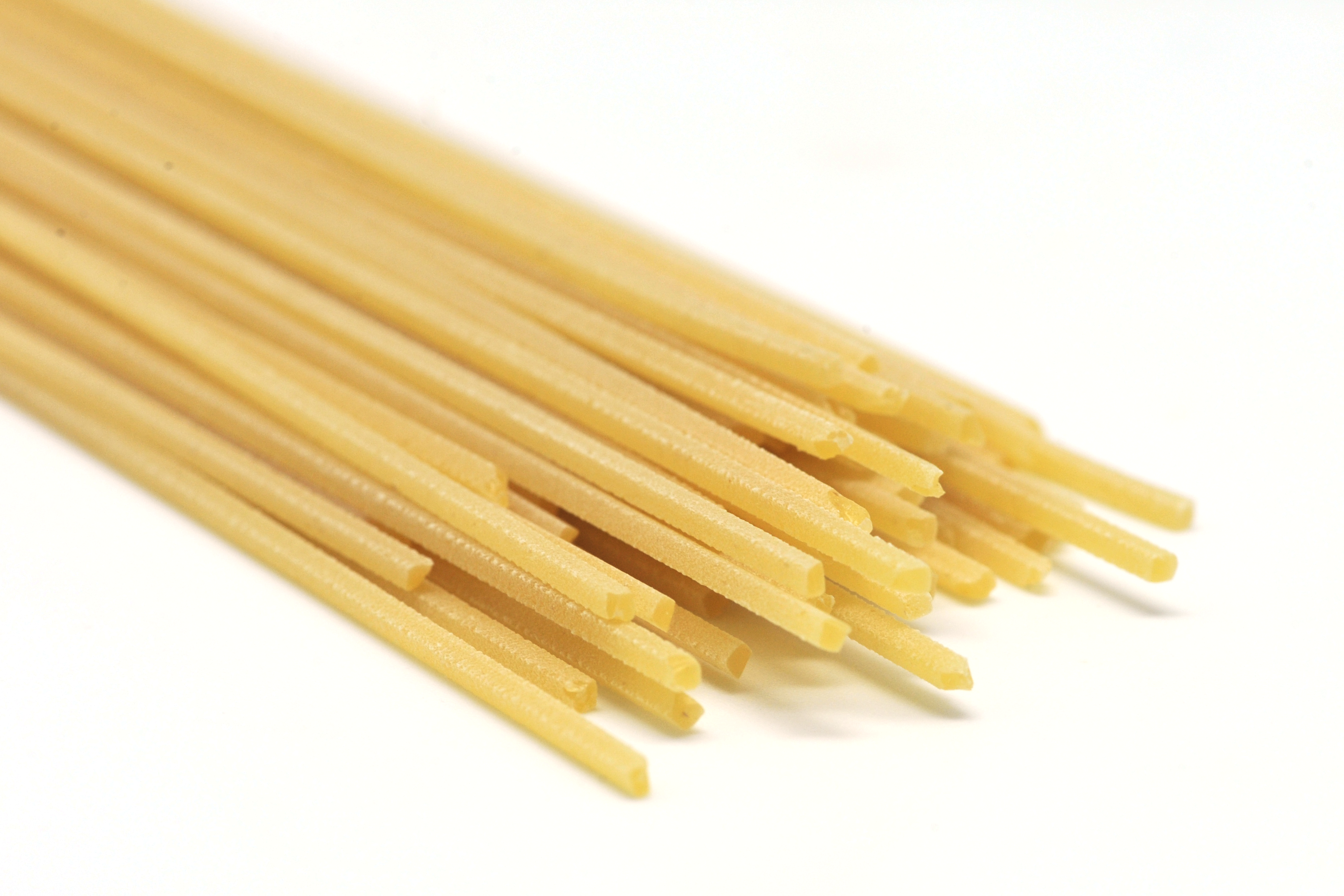 Spaghetti alla chitarra are spaghetti with a square cut